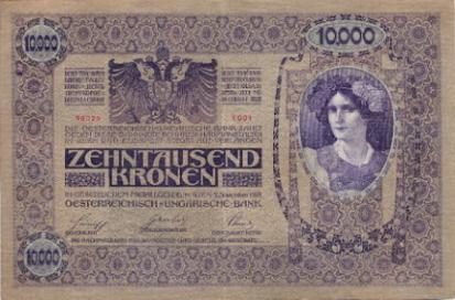 1000 Austro-Hungarian Kronen/korona, 1919 stamped Issue für Hungary - unstamped austrian reverse